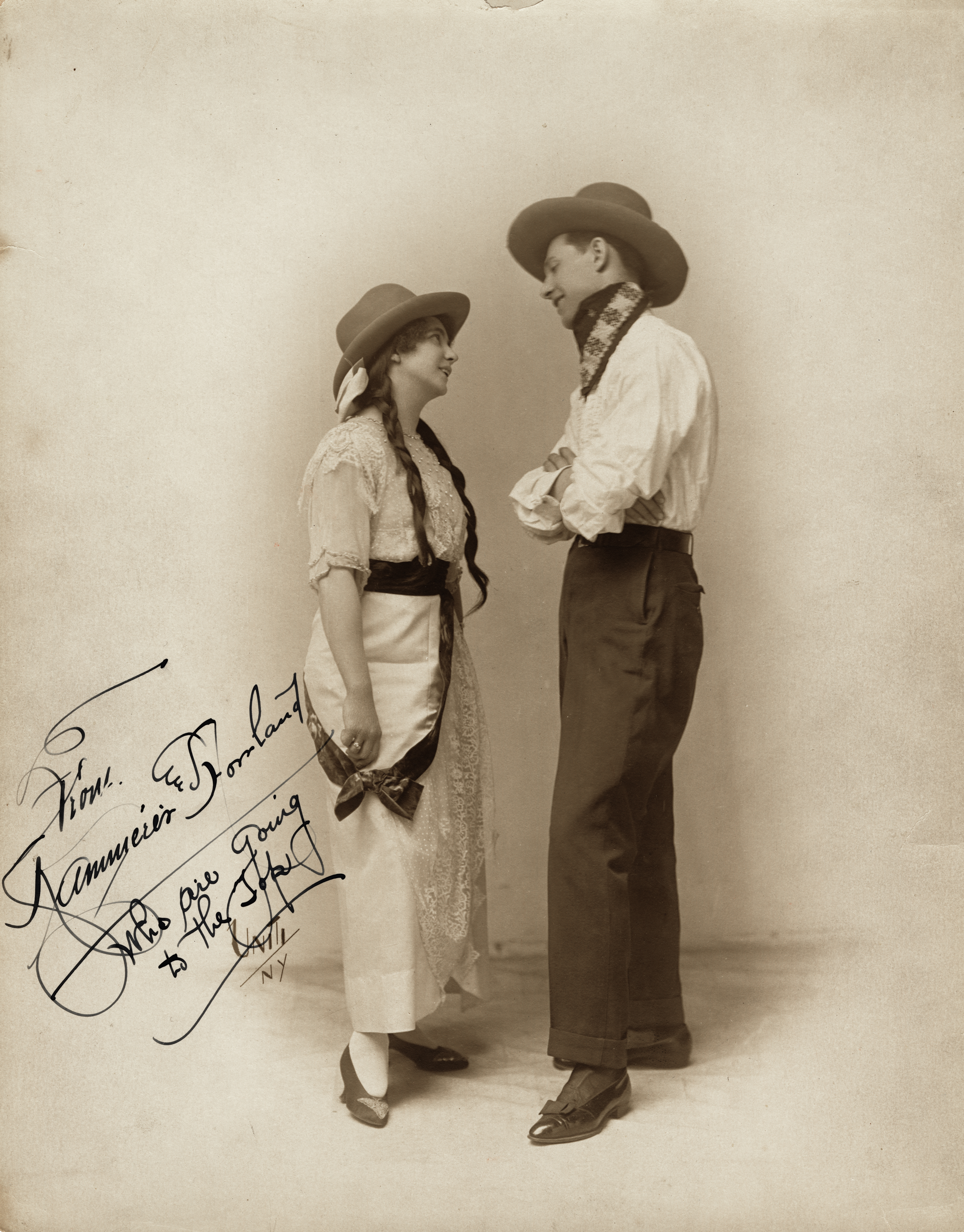 Jack Kammerer was a comedic acrobat and Edna Howland was a classically trained pianist. In 1910, they began appearing together in Rhode Island vaudeville theatres as “Kammerer & Howland -- Classical Comedy Singing and Talking Act." They toured the United States for a decade, on the Loew's vaudeville circuit and the Burlesque wheels, before calling it quits in 1920. Jack Kammerer adopted the stage name Jack Cameron. In the 1920s, he was cast in major theatrical productions and in the motion picture, Applause (1929). Later he performed in minor film roles, as well as on local radio and television programs. This photograph, taken by Unity Studio on the corner of 46th and Broadway, was likely created in 1914 to promote the act's first Loew's tour. The photo is signed, "From Kammerer & Howland, Who are going to the top."